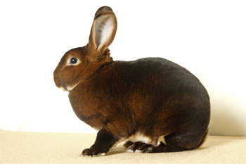 rex rabbit